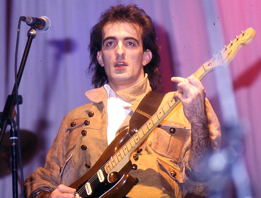 Robert Papst, founder of "Dominoe"